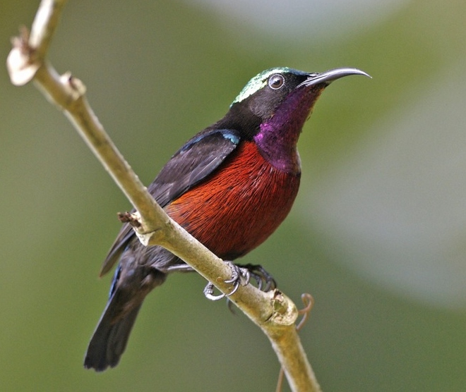 Purple-throated Sunbird (Leptocoma brasiliana. A male in the central catchment area, Singapore on 28 January 2008. Indonesian: Burung madu hitam gunung